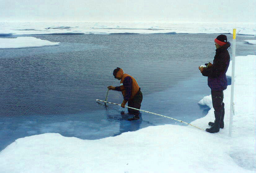 SHEBA (Surface Heat Budget of the Arctic Ocean) researchers taking data in a melted area of the Arctic Ocean ice pack